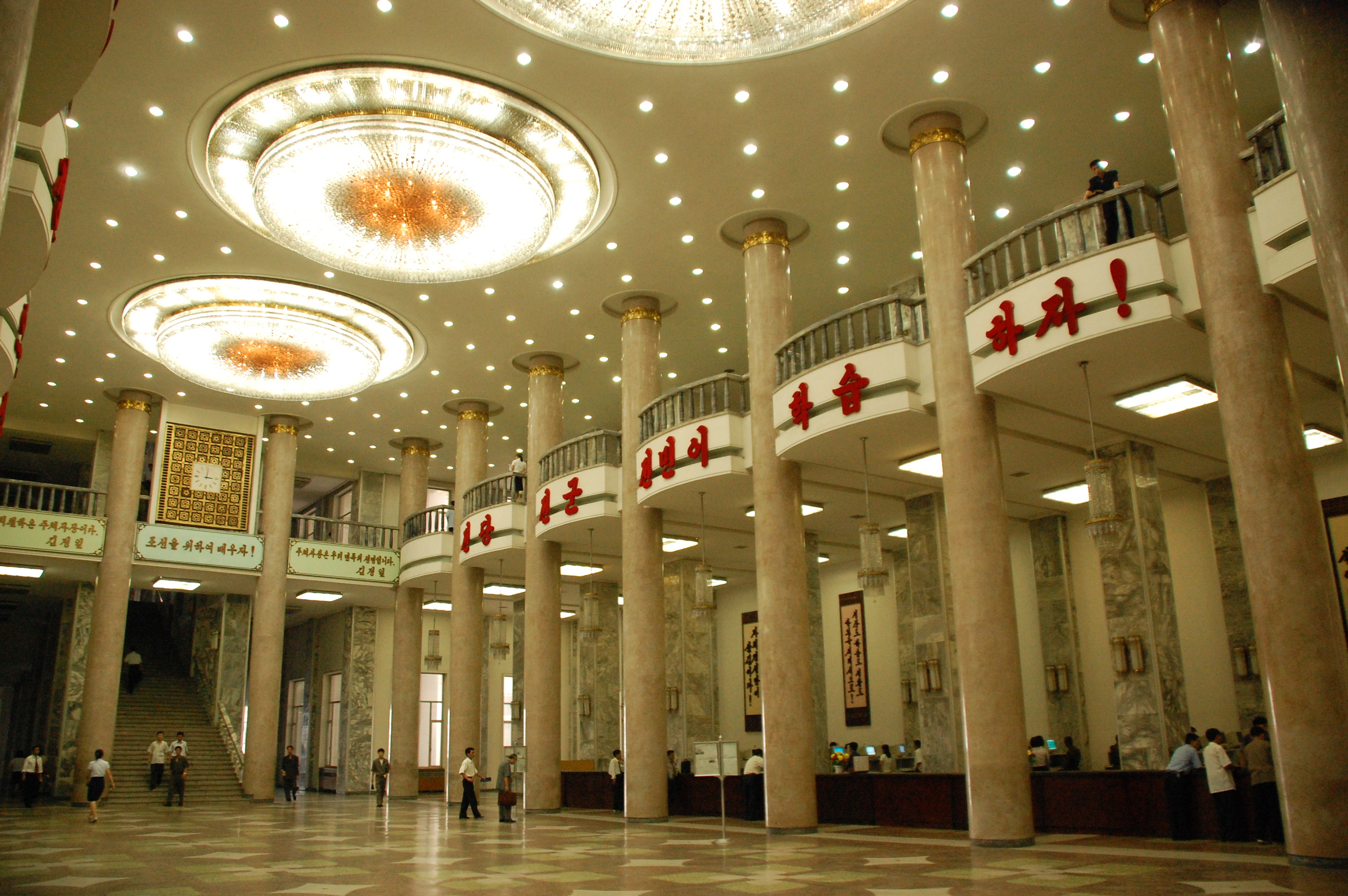 North Korea — Pyongyang, Grand People's Study House